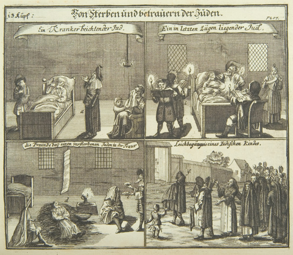 Illustration from Juedisches Ceremoniel, a German book published in Nürnberg in 1724 by Peter Conrad Monath. The book is a beautifully illustrated description of Jewish religious ceremonies, rites of passage and feast days, which first appeared in 1716, here in its second edition of 1724. The extremely detailed plates, by Georg Puschner, depict priestly robes, the celebrations of the New Year, Passover, the weekly Sabbath, circumcision, presentation of the first born, prayer at the synagogue, a wedding procession and a wedding, purification of the bride, the washing of the brother-in-law's feet, the feast of reconciliation, death rites, burials, as well as the procedures for other Jewish customs.